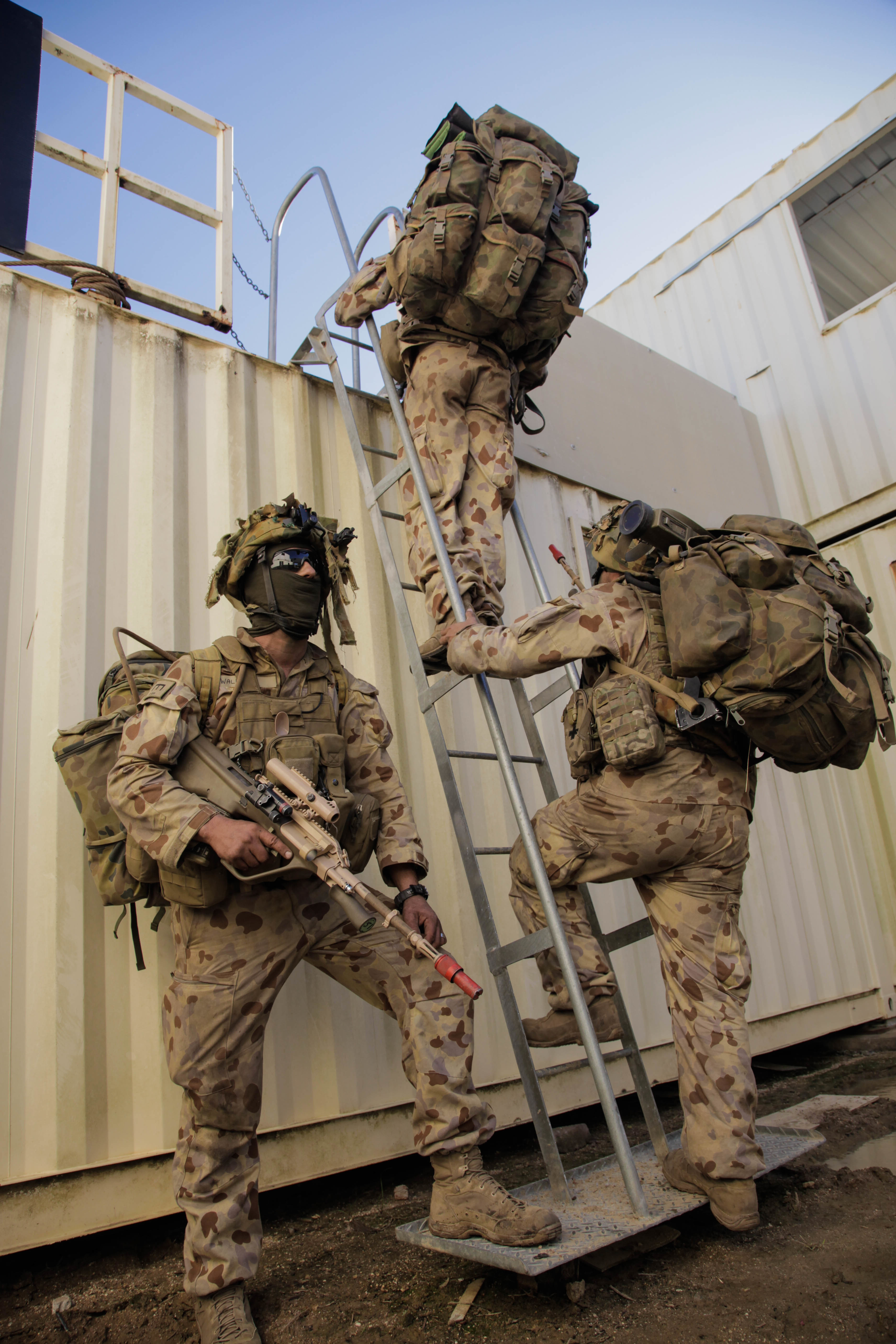 Australian Soldiers from 3rd Combat Engineer Regiment clear a building during exercise Hamel 15 a sub-mission of exercise Talisman Sabre in Shoalwater Bay Training Area, Queensland, Australia, July 13, 2015. Talisman Sabre is a biennial exercise that provides an invaluable opportunity for nearly 30,000 U.S. and Australian defense forces to conduct operations in a combined joint and interagency environment that will increase both countries' ability to plan and execute a full range of operations from combat missions to humanitarian assistance efforts. (U.S. Army photo by Spc. Jordan Talbot/Released)